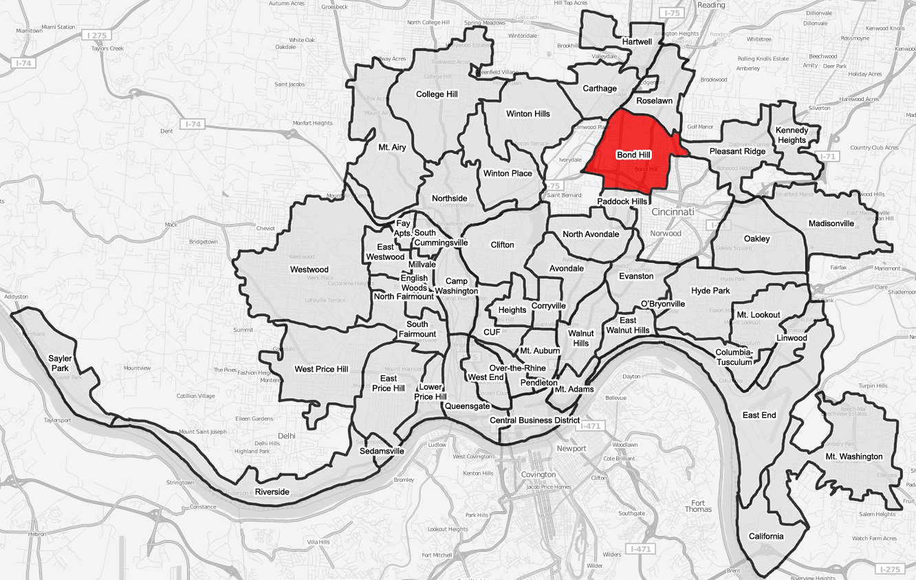 A map of the neighborhood of Bond Hill within Cincinnati, Ohio. Neighborhood lines are based on information from This street map is derived from a free map.